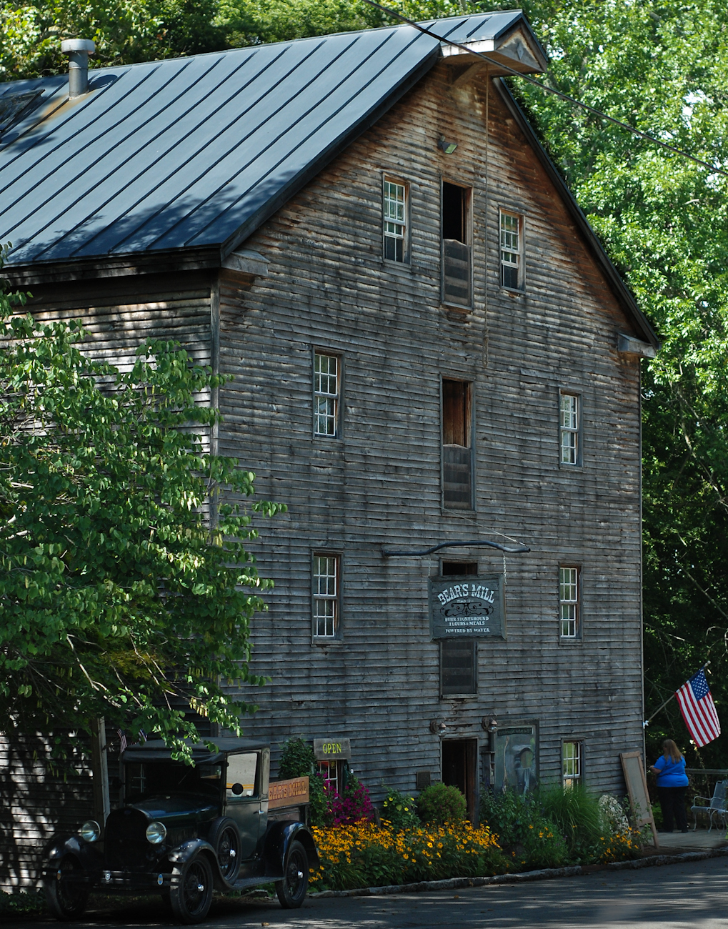 Bear's Mill (built 1849) east of Greenville in Darke County, Ohio, United States.